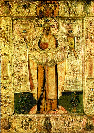 Saint Evfimiy of Novgorod